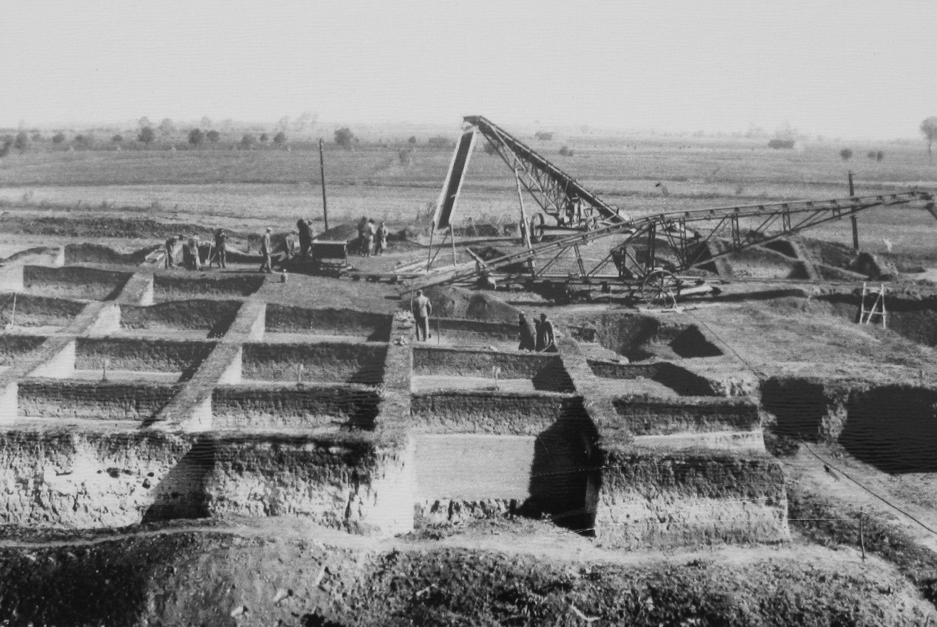 Excavation in archeological locality Zámeček in Nitriansky Hrádok, quarter of Šurany, Slovakia